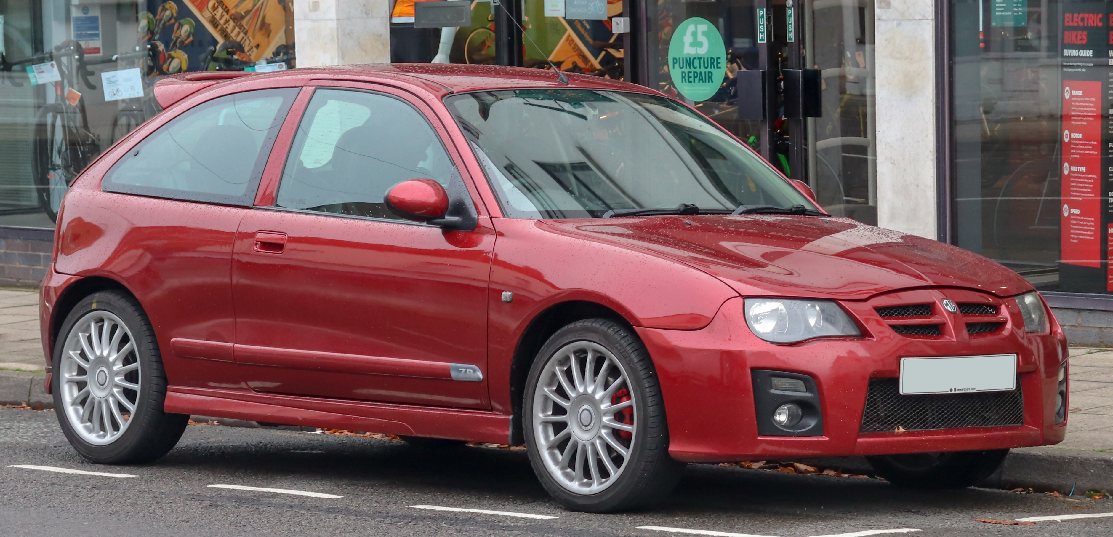 2005 MG ZR+ 105 1.4 Front Taken in Leamington Spa